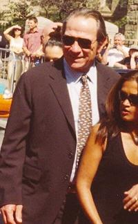 Tommy Lee Jones on hand for his new movie, The Three Burials of Melquiades Estrada. Cropped image from the file below.